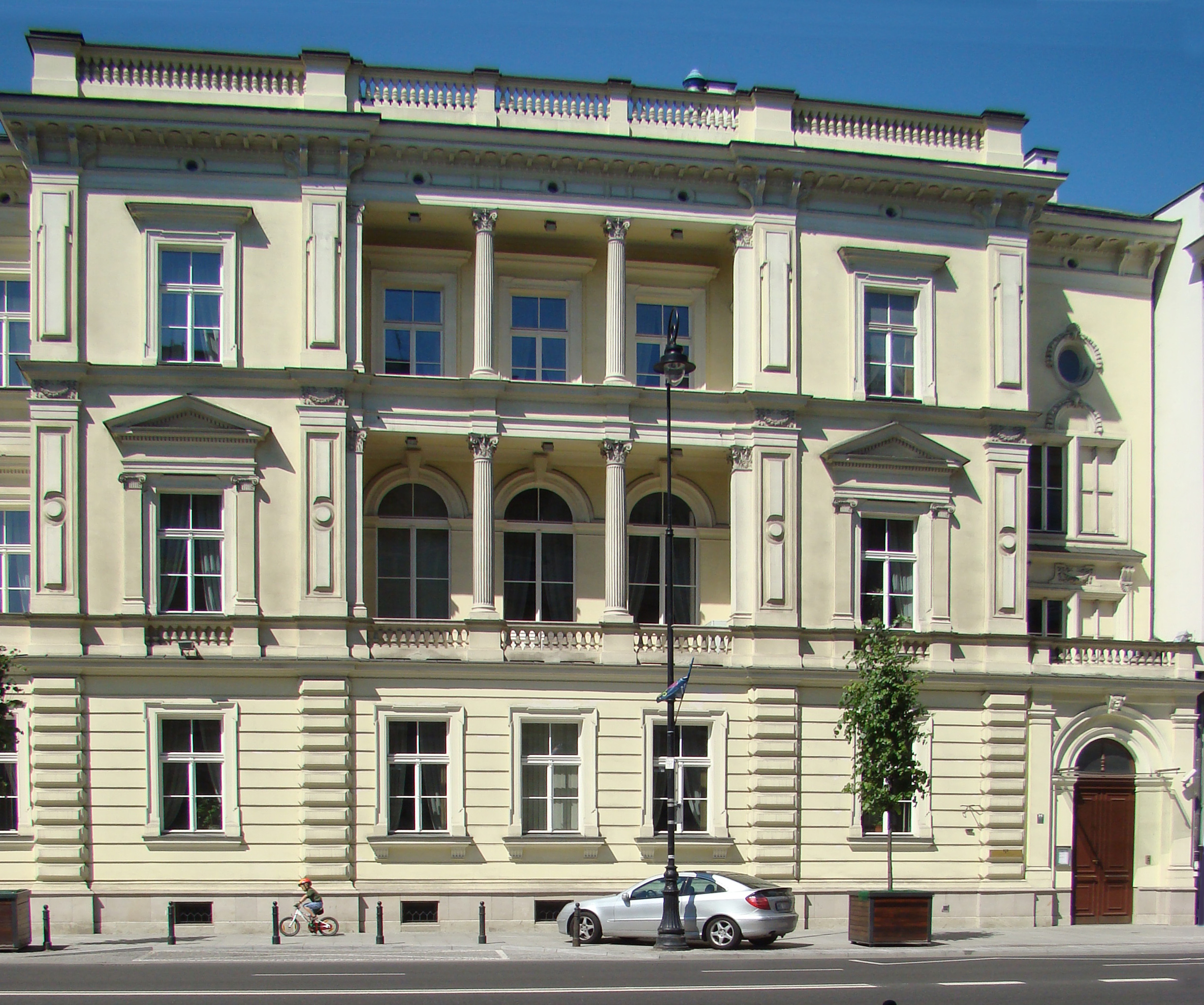 Karnicki Palace, Aleje Ujazdowskie 39, architect Józef Huss, 1877-1888